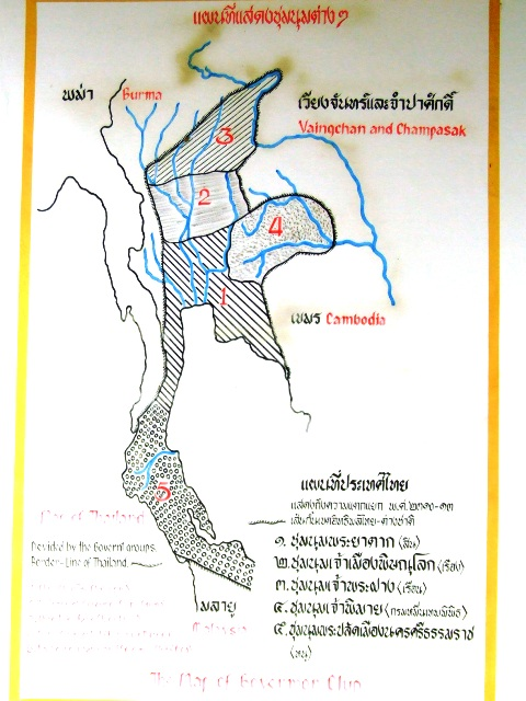 The map of major autonomous regions after the fall of Ayutthaya Kingdom.1: held by Phraya Tak (Sin), later King Taksin;2: held by Chao Phraya Phitsanulok (Rueng Rochonkul), the governor of Phitsanulok;3: held by Chumnum Chao Phra Fang, the monks of Fang;4: held by Krom Muen Thep Phiphit, Lord Phimai;5: held by Chao Phraya Nakhon Si Thammarat (Nu), the governor of Nakhon Si Thammarat